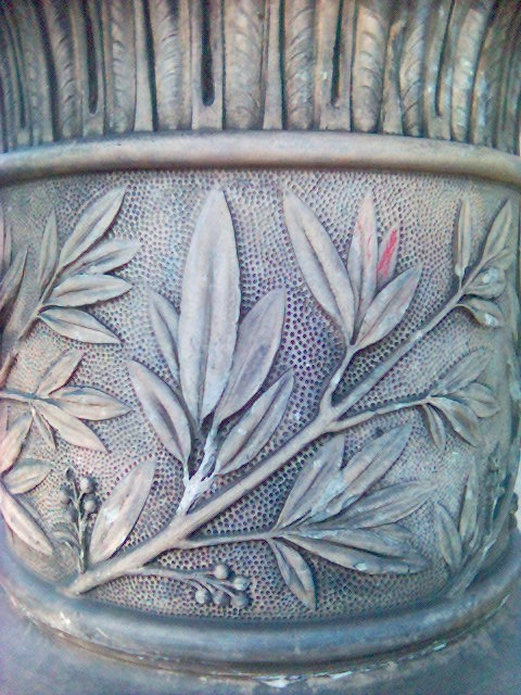 A detail of the Fountain of Life (remains) by George Tinworth.